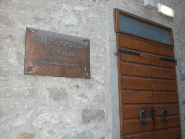 Teatro Mascagni, theatre in Popiglio (Piteglio, Pistoia, Tuscany).